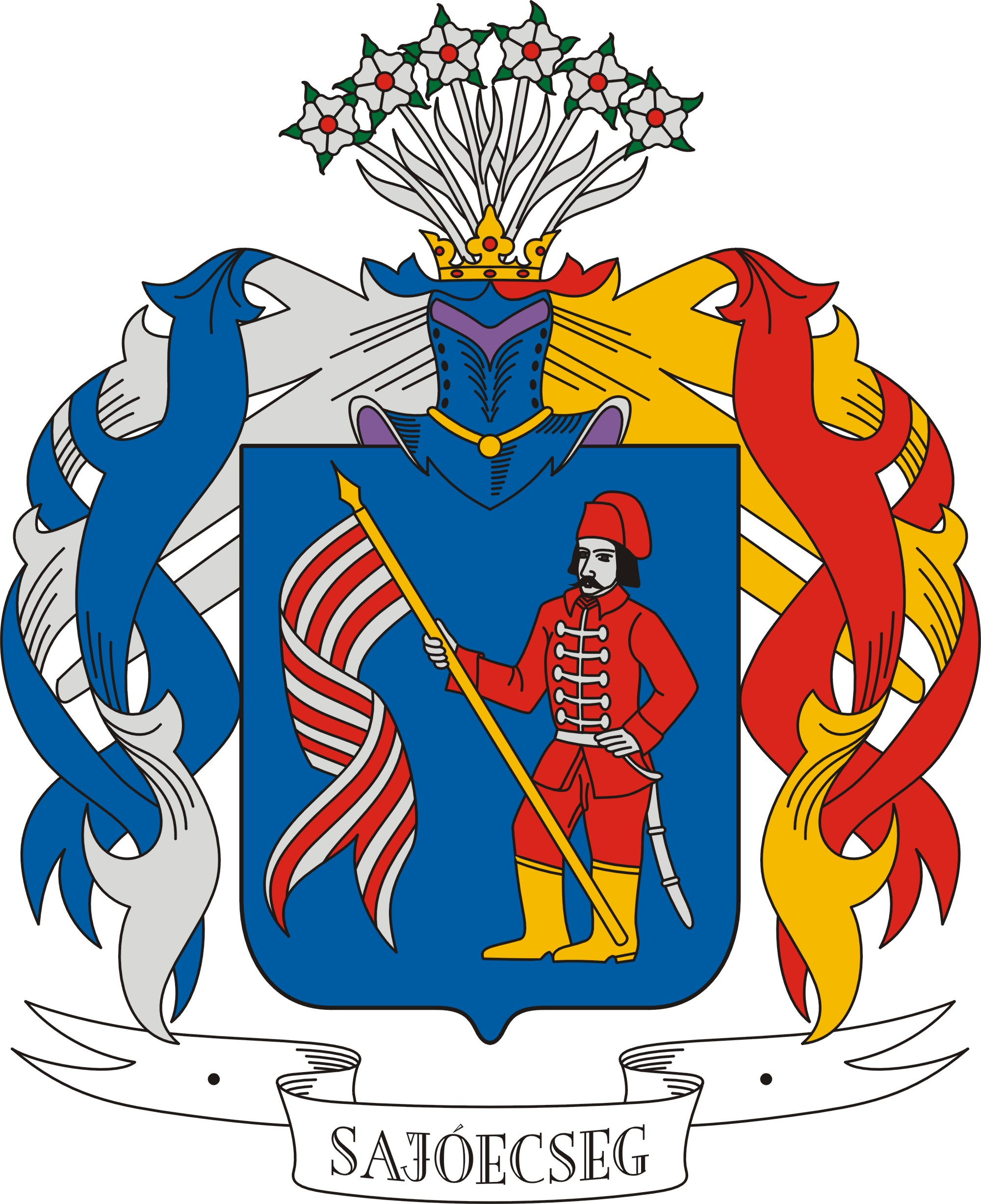 Coat of arms of Sajóecseg, Hungary